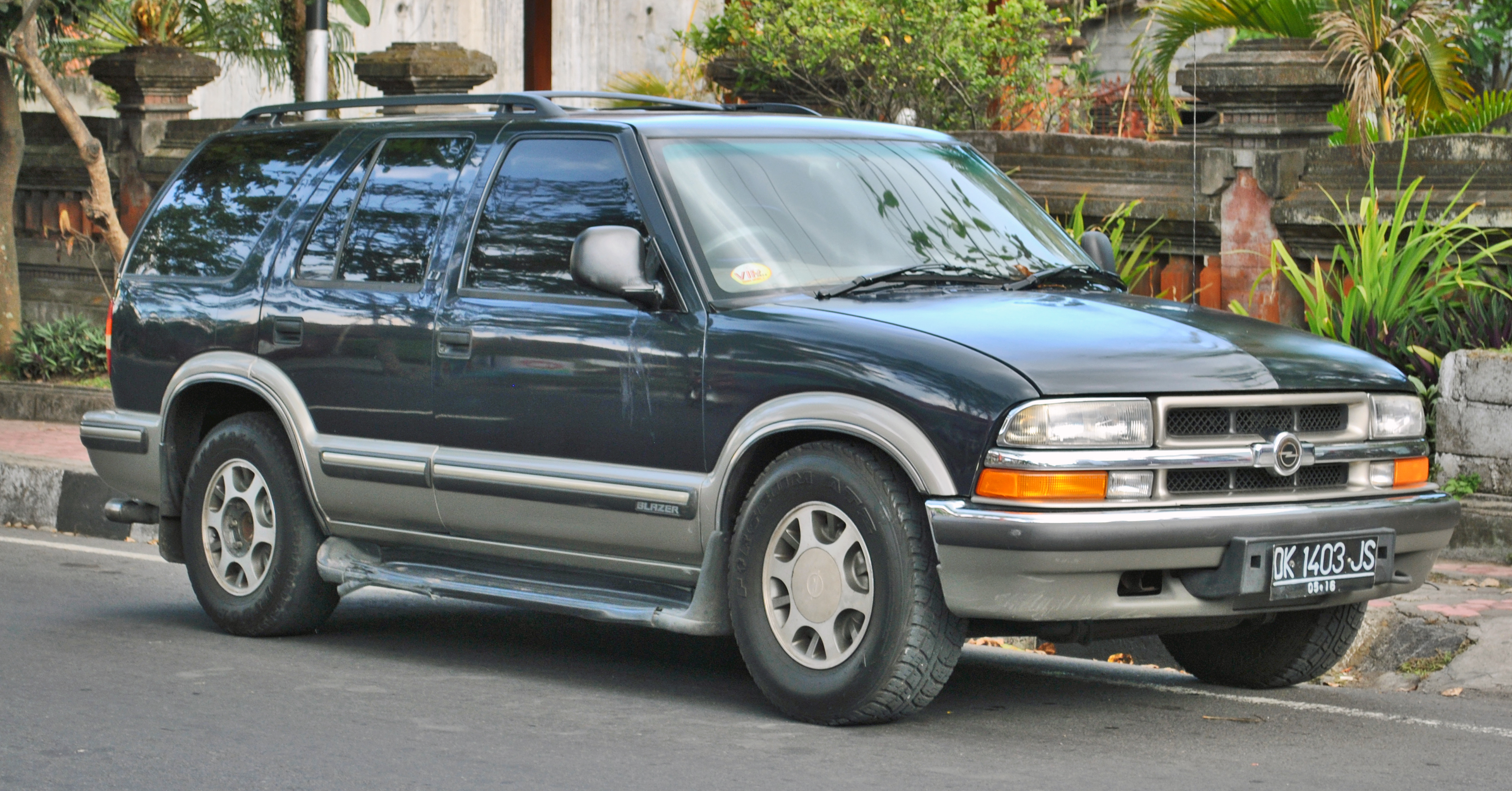 Opel Blazer (Indonesian-market Chevrolet S-10 Blazer) photographed in Amlapura, Karangasem Regency, Bali, Indonesia.